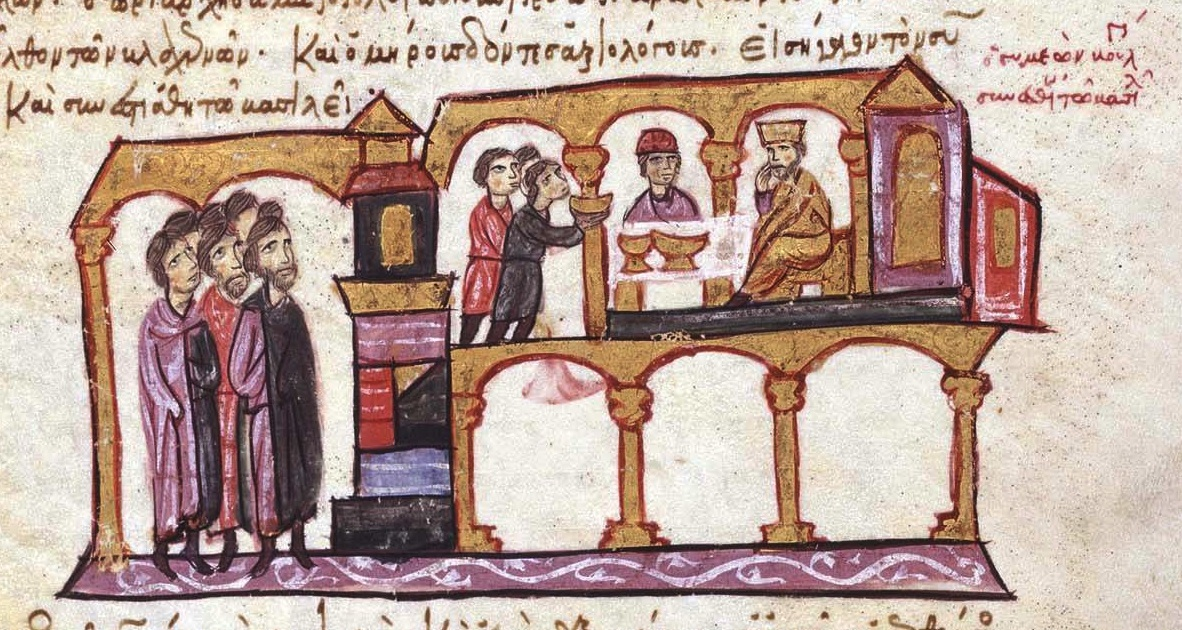 Emperor Constantine VII dining with Tsar Symeon of Bulgaria